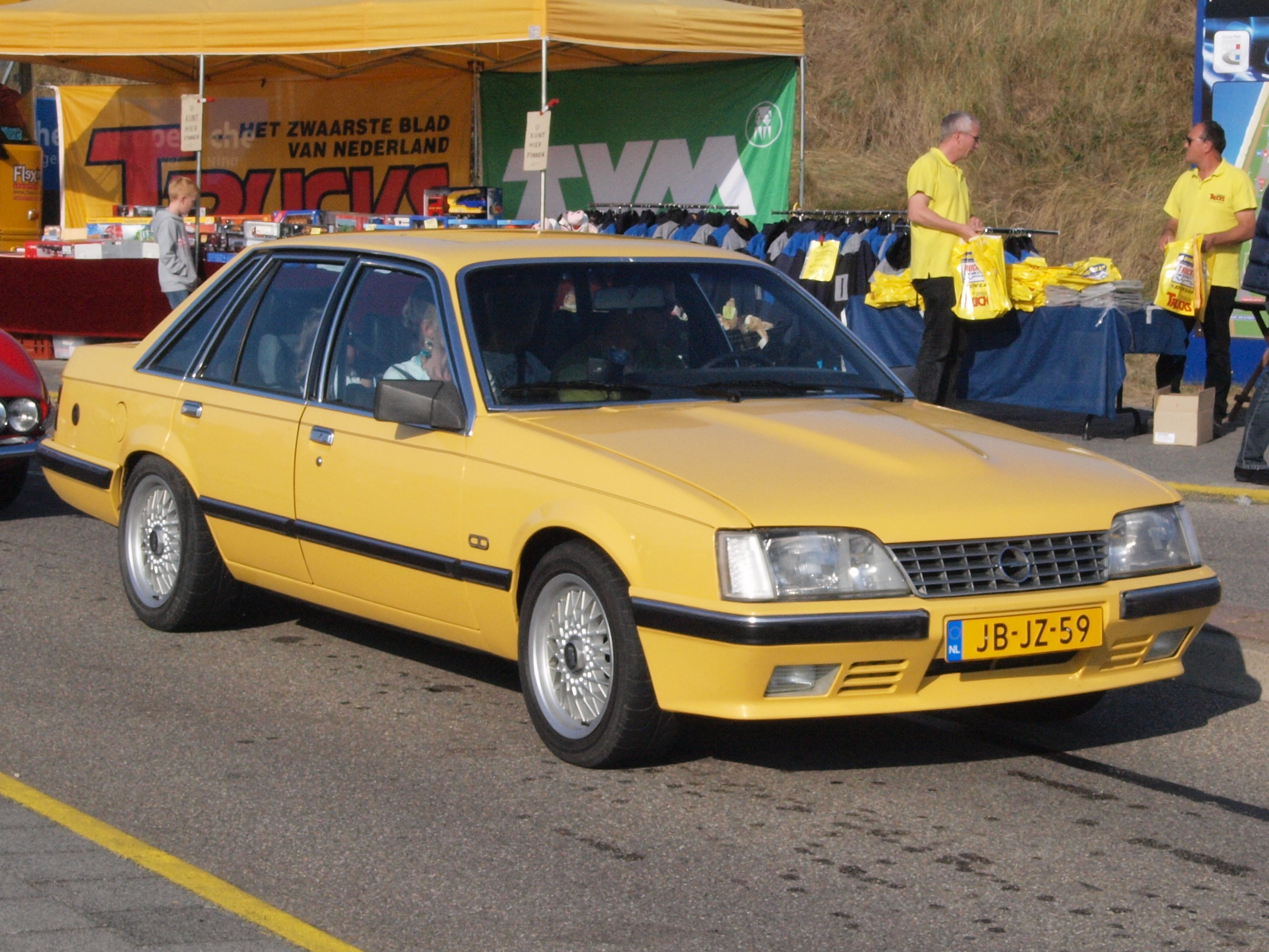 Photographed at the Nationaal Oldtimer Festival Zandvoort 2009, The Netherlands. OLYMPUS DIGITAL CAMERA